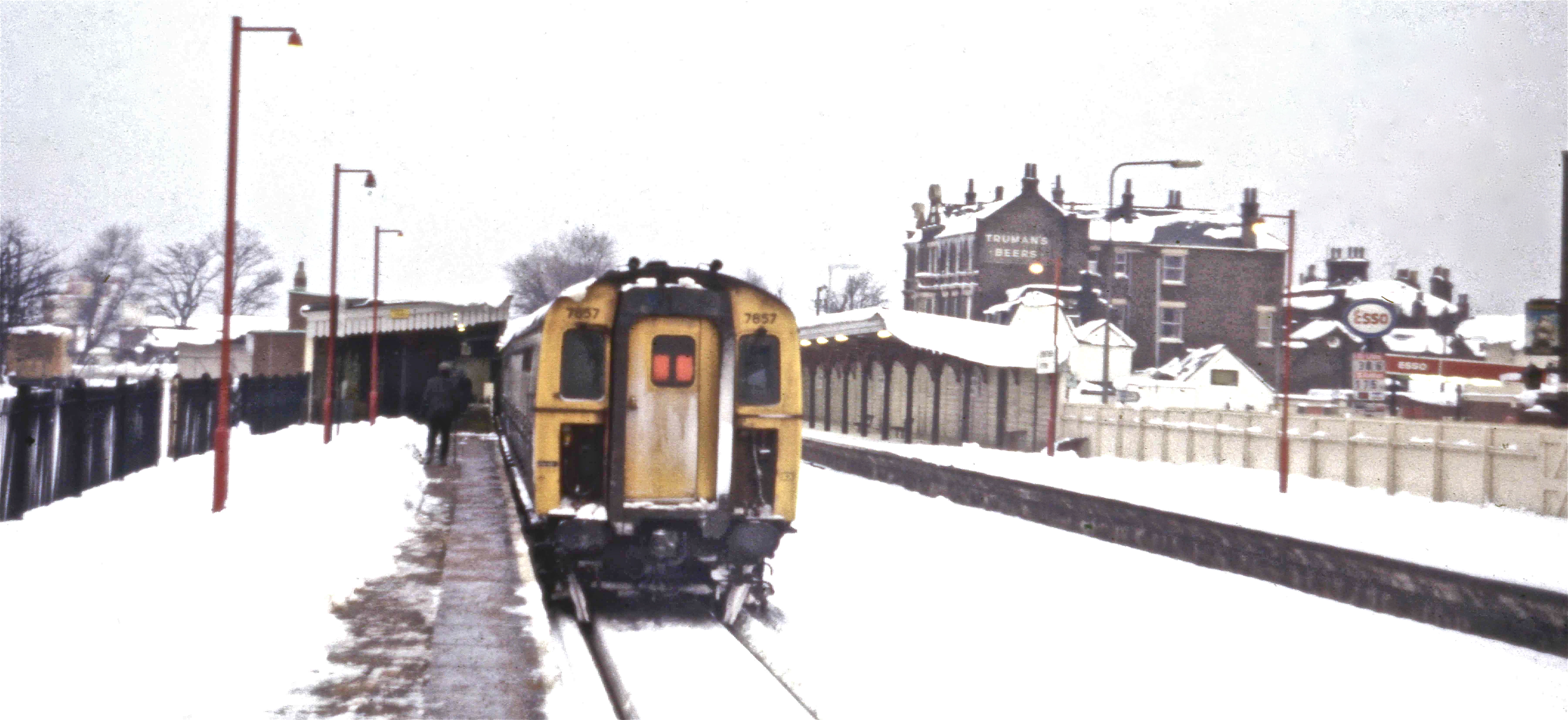 British Rail Class 423 electric multiple unit at Sheerness, Kent, 1987